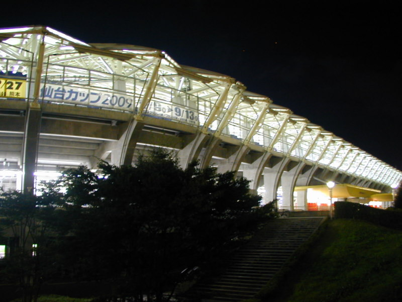 night view of Yurtec STADIUM SENDAI, formerly known as SENDAI Stadium